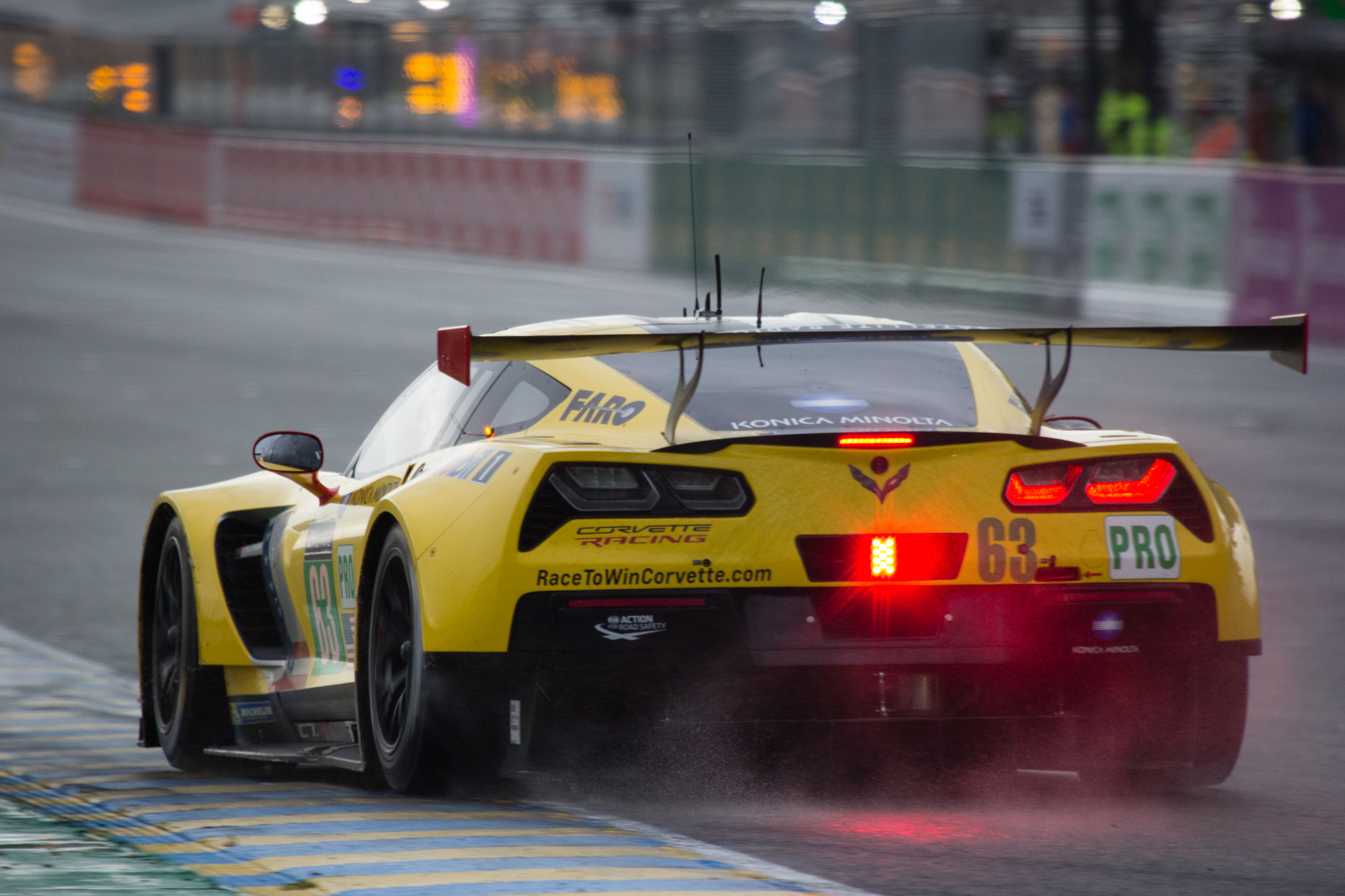 Drivers: Jan Magnussen, Antonio Garcia, Ricky Taylor